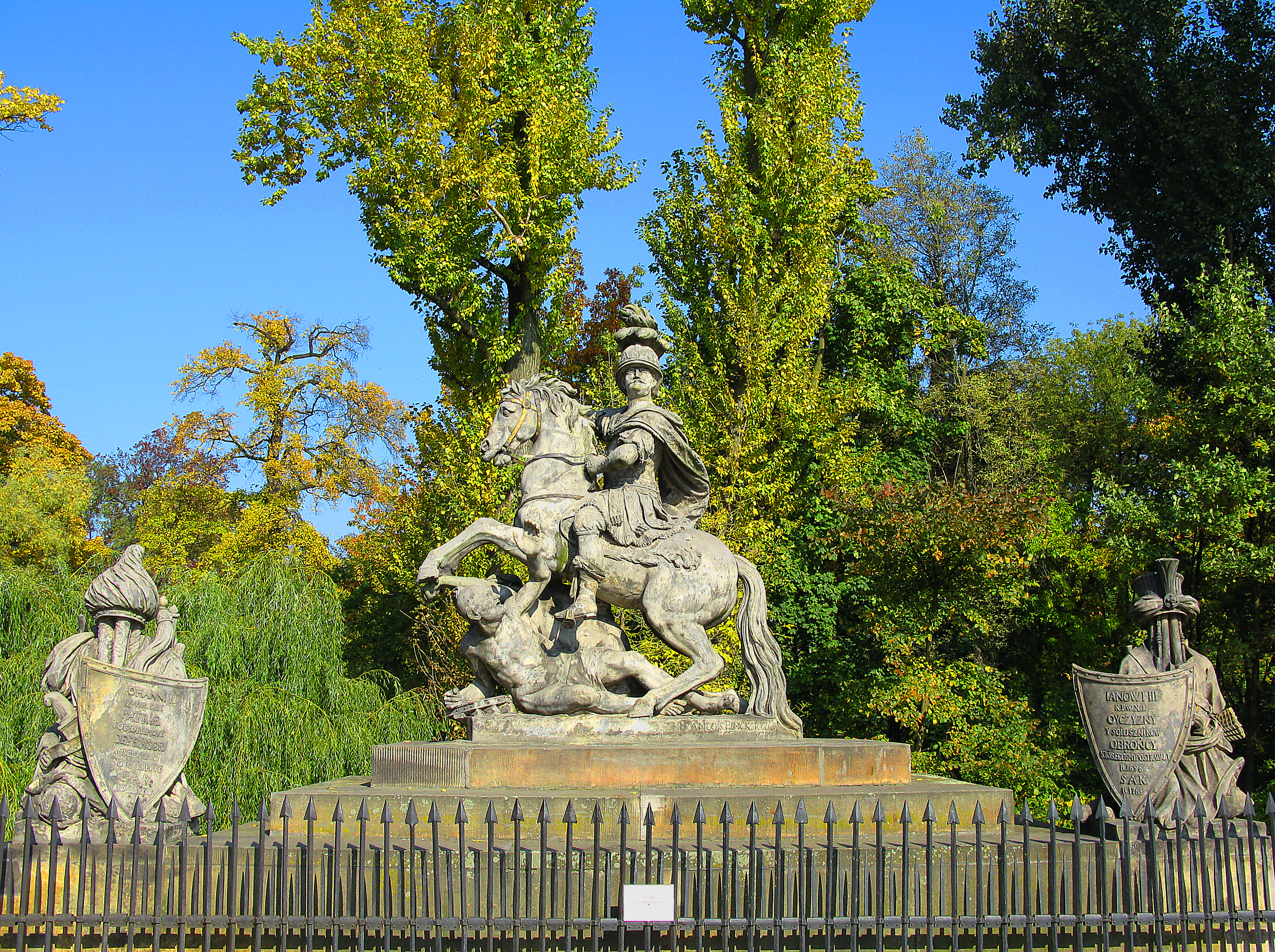 King John III Sobieski Monument in Warsaw